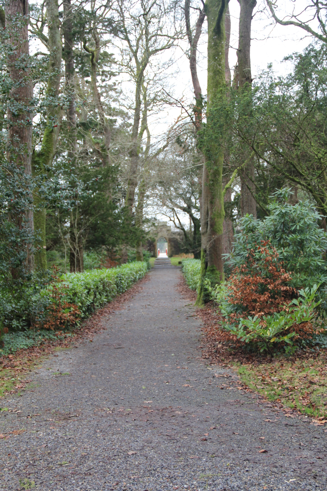 Walk from Castle direct to walled gardens